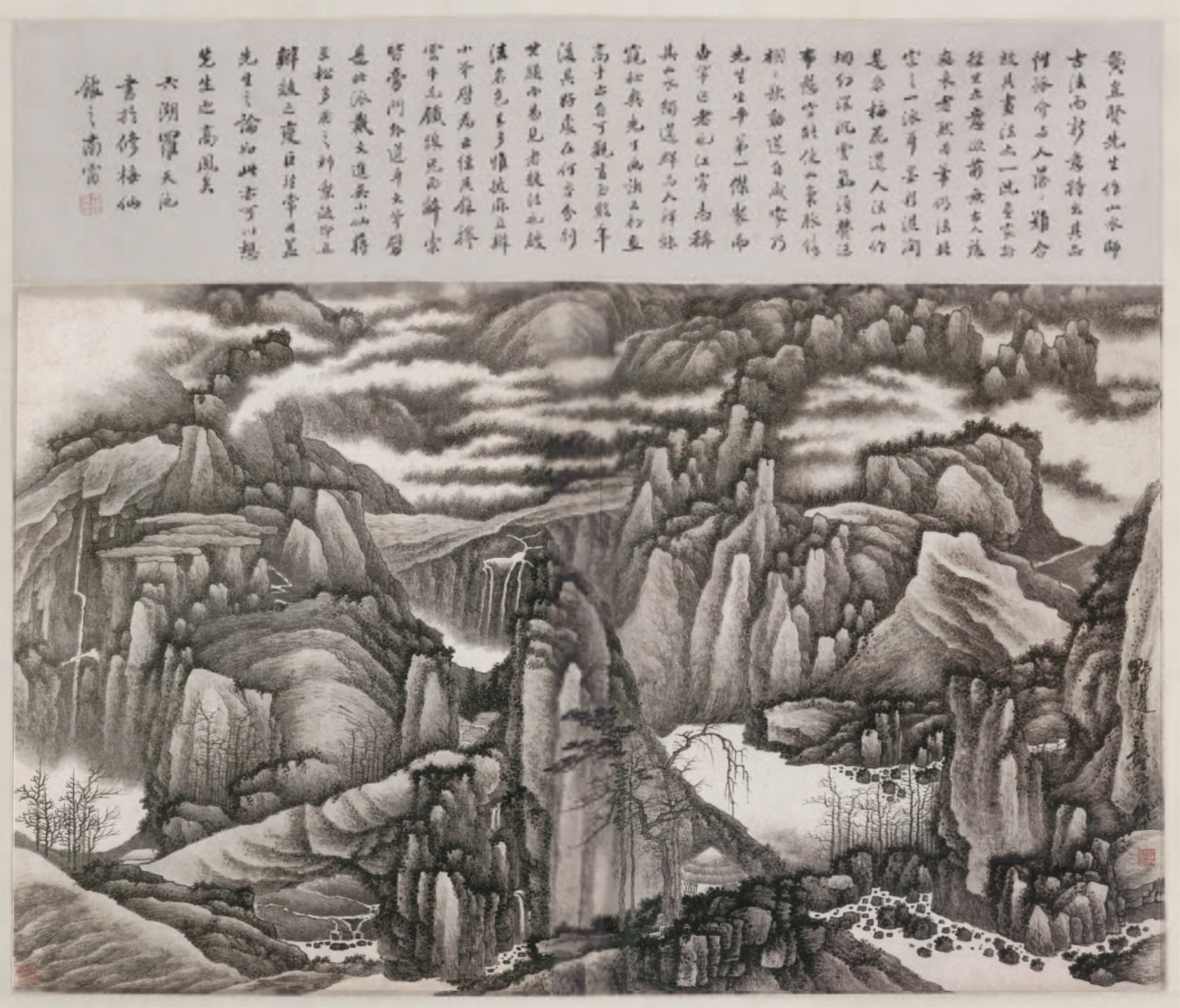 Gong Xian (1619-1689). Thousand peaks and ten thousand valleys. Second half of the 17th century. Ink on paper, 102 x 62 cm. Inv.-Nr. RCH 1172. Charles A. Drenowatz Collection. Museum Rietberg. Zurich (Mounting)